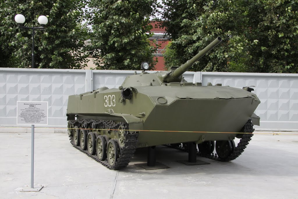 Verkhnyaya Pyshma Tank Museum 2011